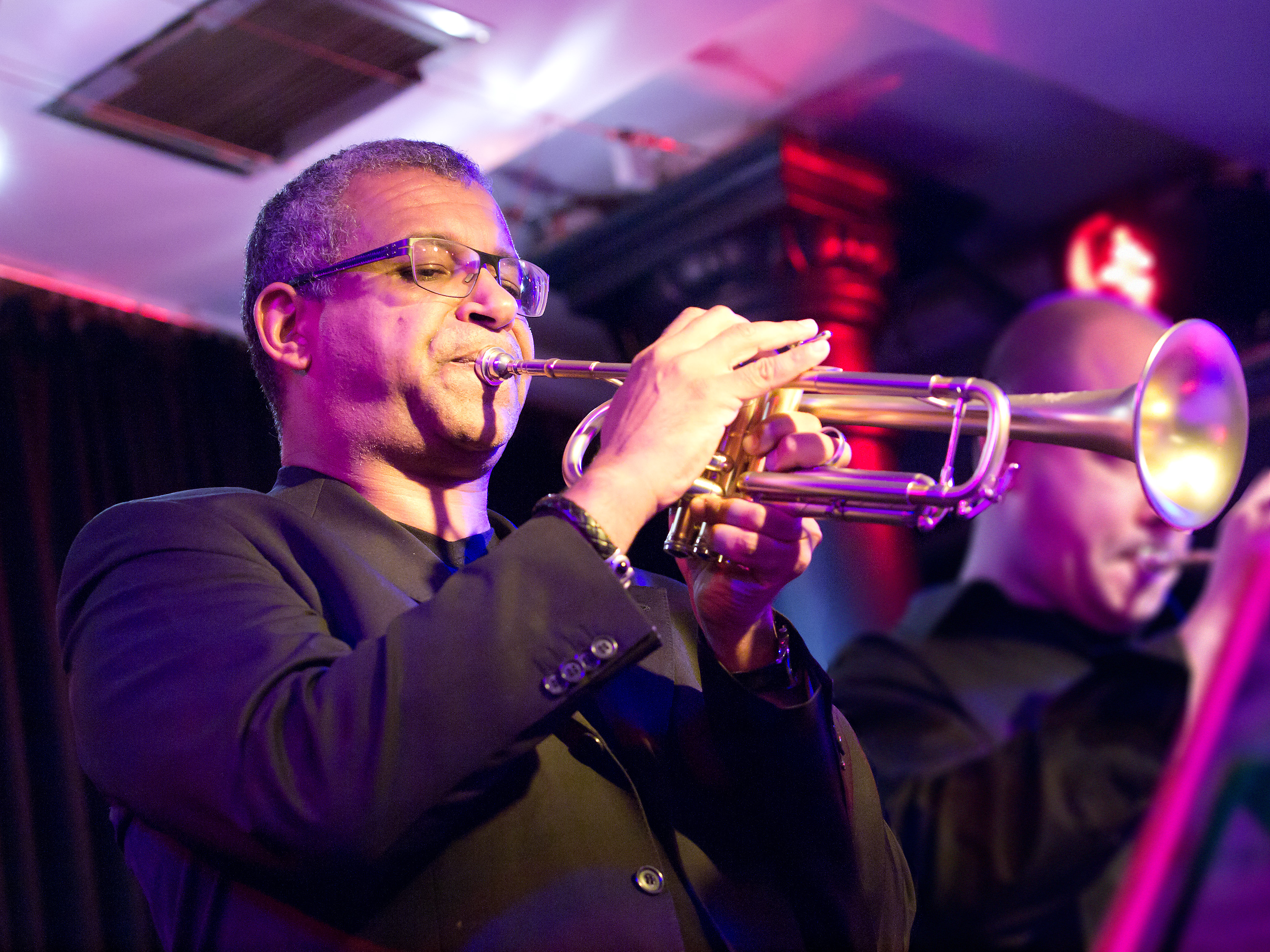 Claus Reichstaller, Jazz trumpeter; Picture taken in Jazz Club Unterfahrt, Munich/Bavaria